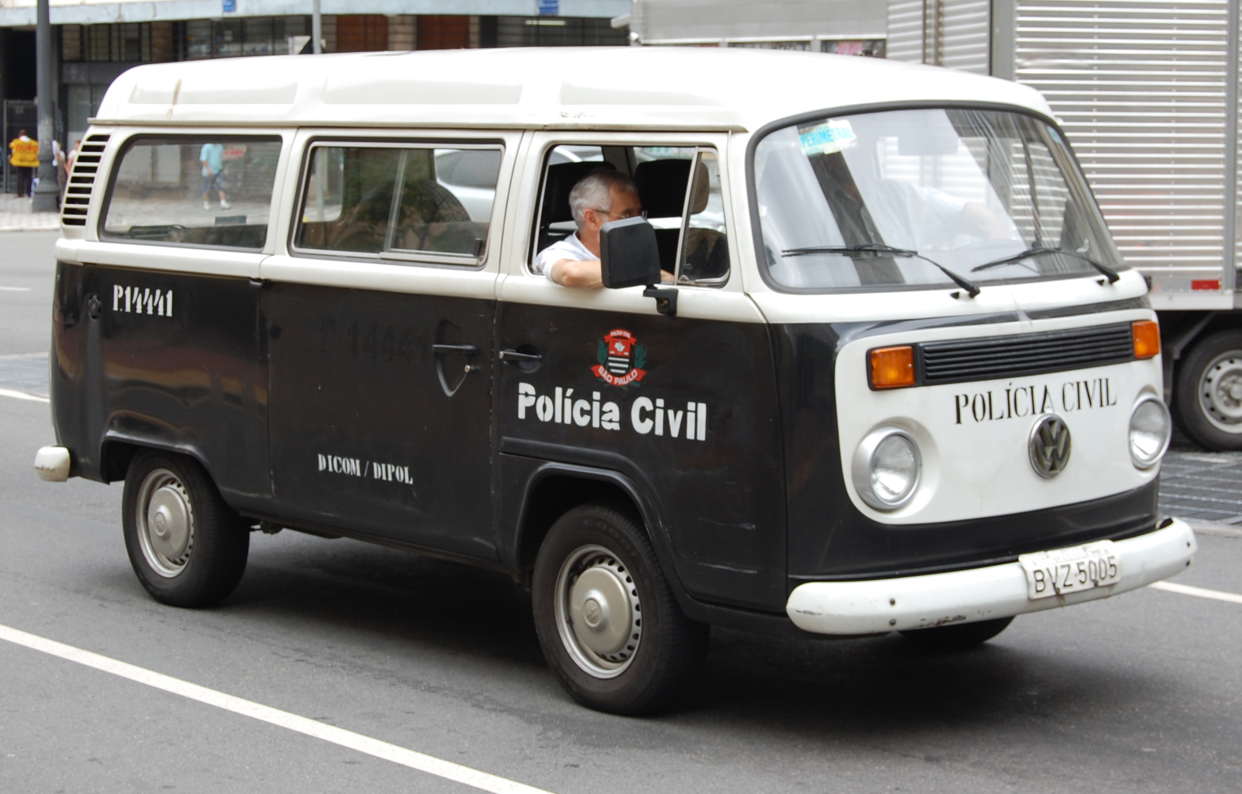 Volkswagen Kombi (T2) belonging to the Civil Police, São Paulo